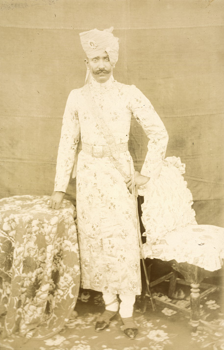 Photograph of Kesri Singh (1872 -1919), Thakur of Piploda from the 'Wheeler Collection: Portraits of Indian Rulers,' was taken by an unknown photographer in 1903. Stephen Wheeler, the donor of the collection, was presumably related to J. Talboys Wheeler, organiser of the 1877 durbar and author of 'The History of the Imperial Assemblage at Delhi' (London, [1877]). Full-length standing portrait of Kesri Singh, Thakur of Piploda. Piploda, located in Rajasthan, was controlled by the Doria Rajputs and was founded by Shardul Singh in 1547. Kesri Singh, succeeded as chief of Piploda in 1887.